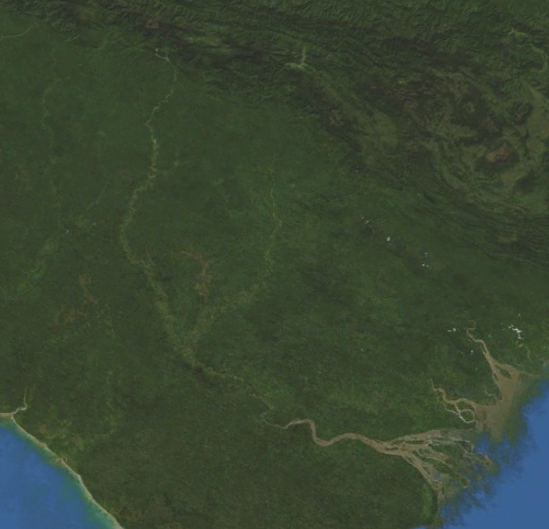 NASA World Wind image of the Fly River